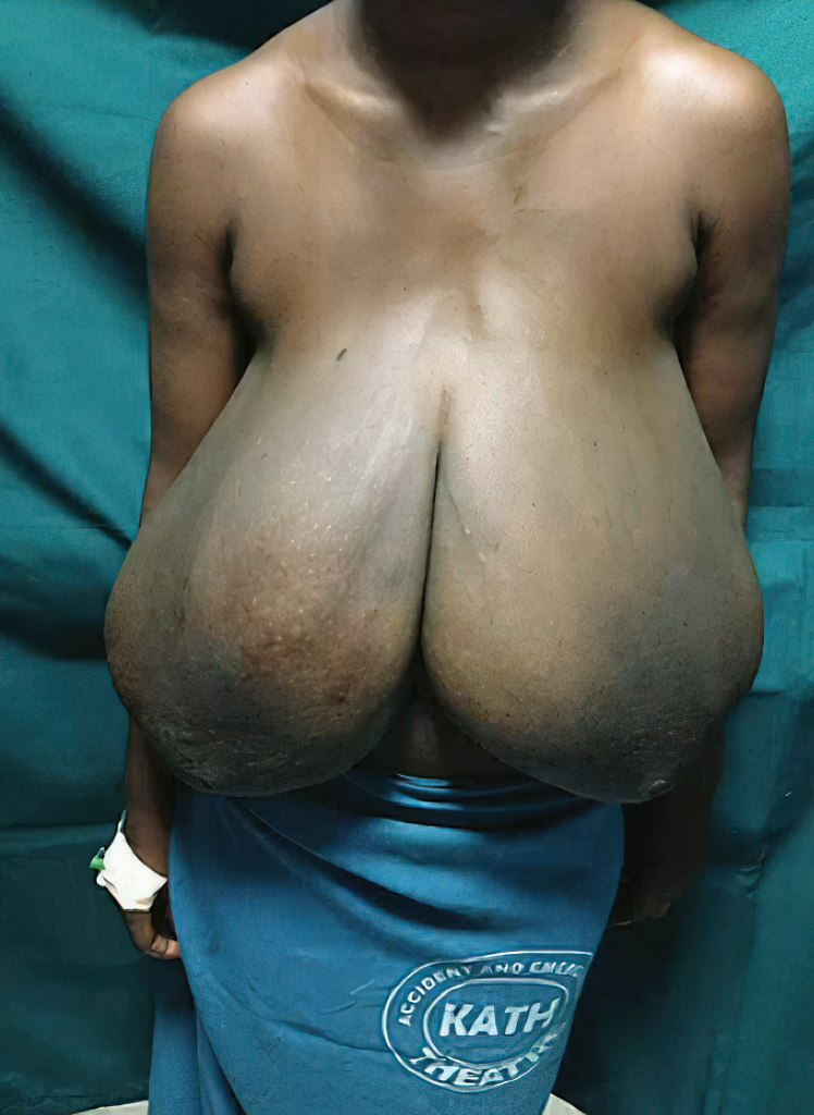 Hypertrophy of breast